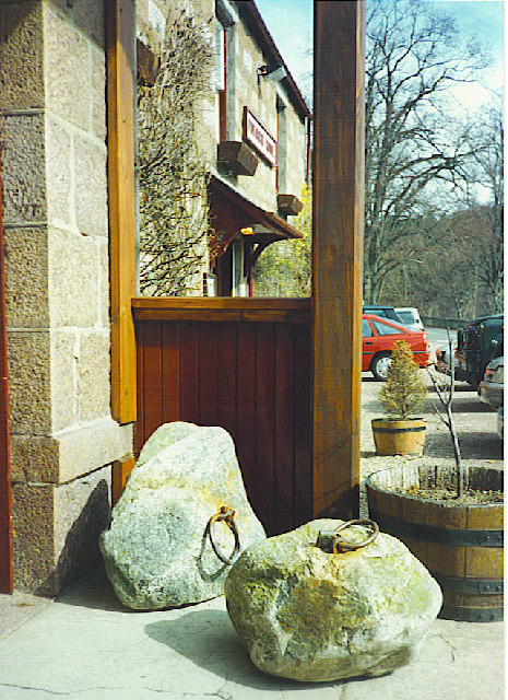 Dinnie Stanes, Potarch Hotel. These "stanes" were carried across Potarch Bridge by celebrated Victorian "Highland Heavy" Donald Dinnie. Few can lift these,never mind carry them. They sit at the front door of the Potarch Hotel which caters for salmon fishers on the Dee.